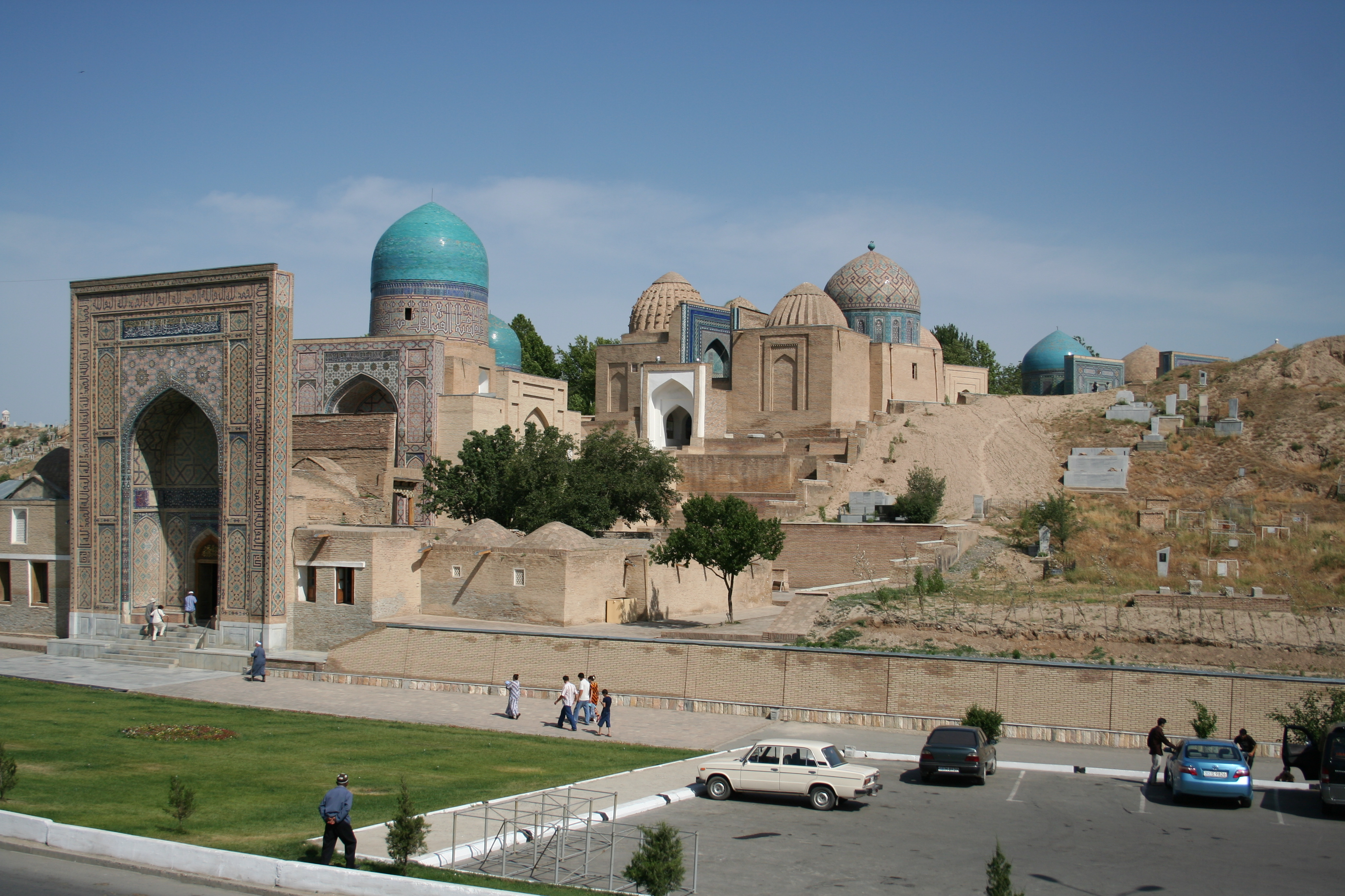 Samarkand, Shah-i Zinda (picture taken after the "restoration works" of 2005)